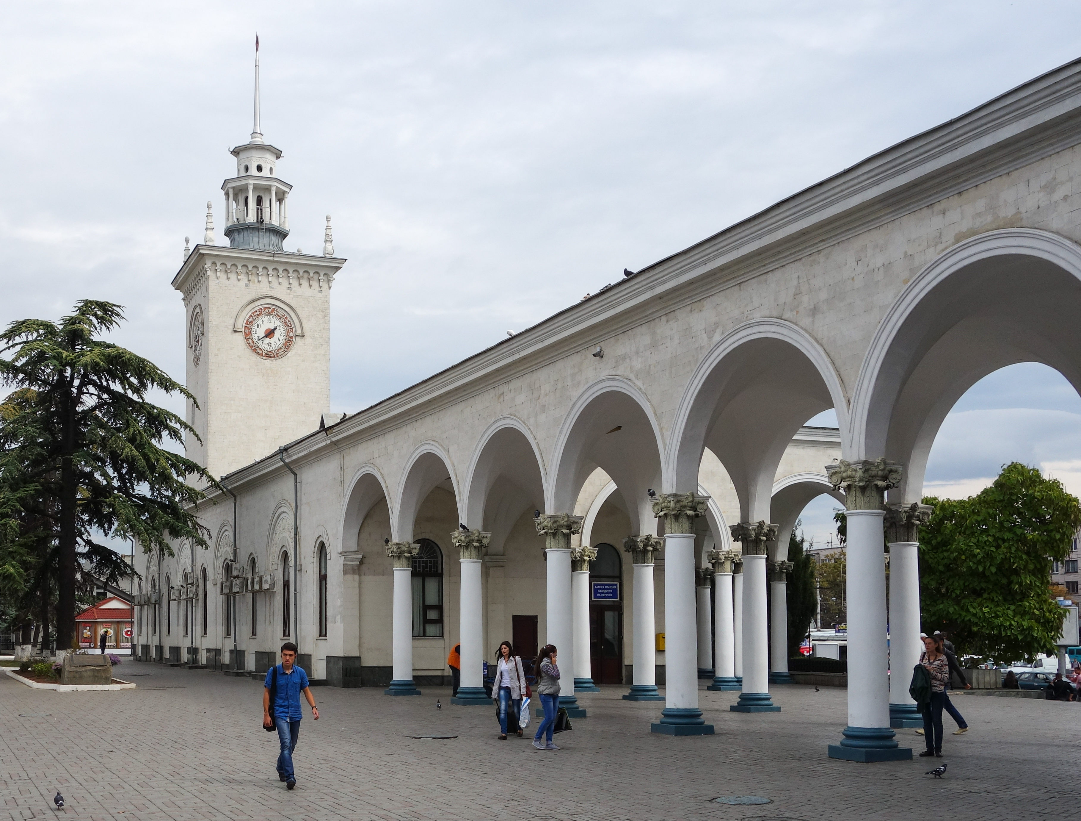 Train terminal with clock tower / Simferopol, Russia